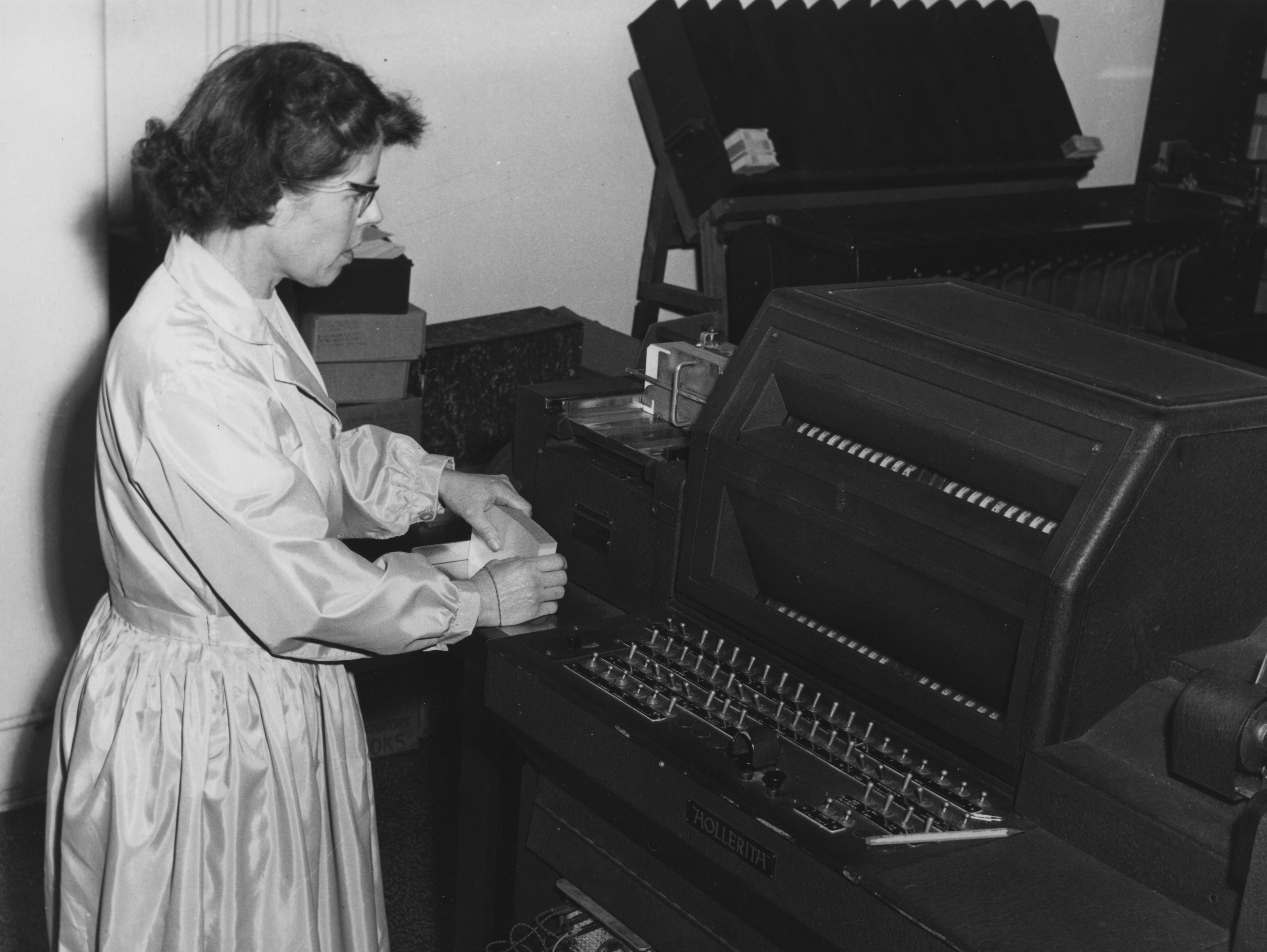 Photograph taken during the making of a BBC documentary. IMAGELIBRARY/168 Persistent URL